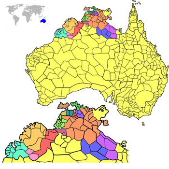 Linguistic map of Australian languages Pama–Nyungan Bunaban Wororan Garawa Giimbiyu Gunwinyguan Daly Djamindjungan Djeragan Yiwaidjan Laragiya Limilngan Nyulnyulan Tiwi Umbugarla West Barkly